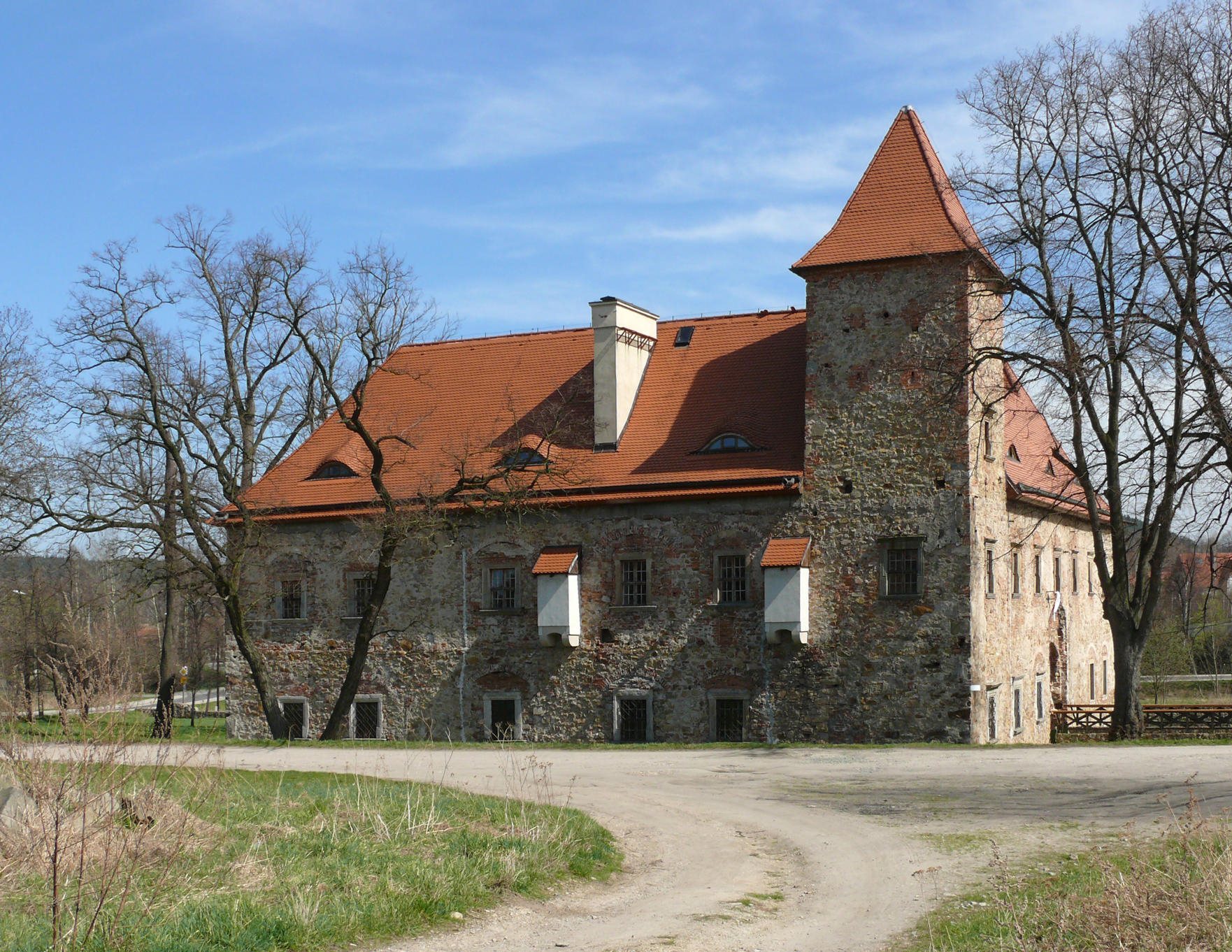 Czarne-the housing estate of Jelenia Góra city-Manor Czarne.